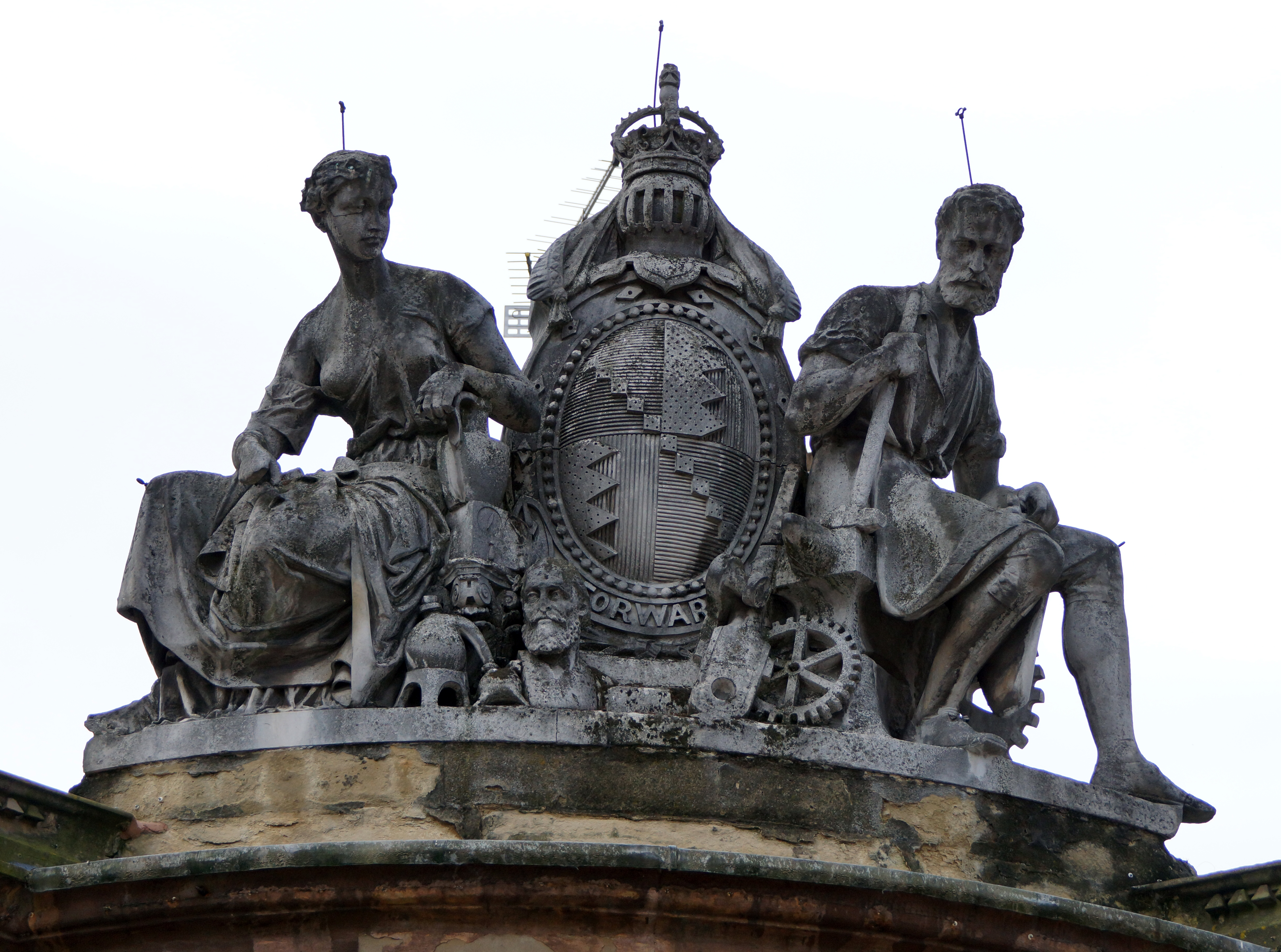 Coat of Arms of the Borough of Birmingham. On the roof of the former National Provincial Bank, 8 Bennetts Hill and 11 Waterloo Street Birmingham, England. Subsequently National Westminster Bank and then various pubs. Made in stone, 1869, by Samuel Lynn. The shield was adopted by the Corporation of Birmingham in 1867 but the supporters were not granted by the College of Arms until Birmingham's granting of city status in 1889.